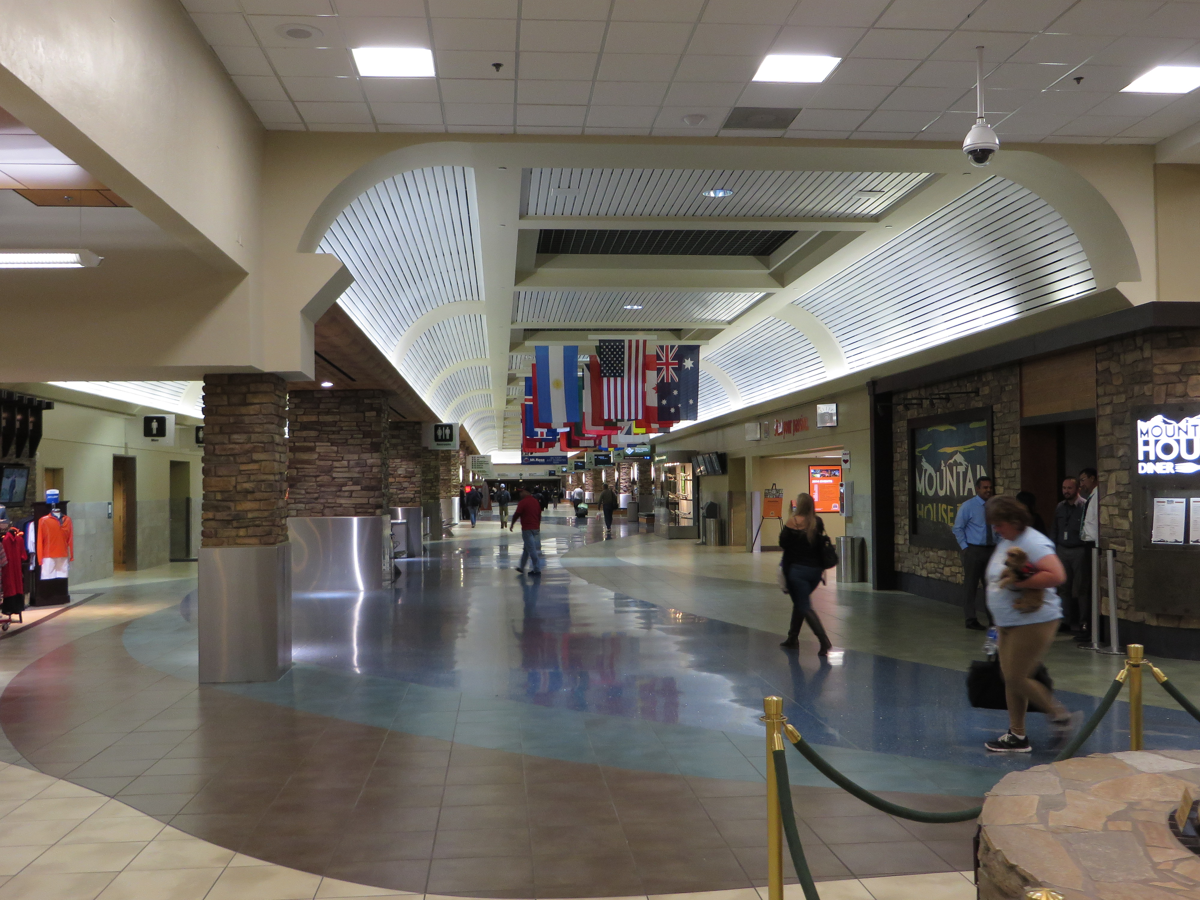 Reno–Tahoe International Airport is a public and military use airport located three nautical miles (6 km) southeast of downtown Reno, in Washoe County, Nevada. The National Plan of Integrated Airport Systems categorized it as a primary commercial service airport (more than 10,000 enplanements per year). It is the second busiest commercial airport in Nevada after McCarran International Airport in Las Vegas. Reno–Tahoe International Airport is the 61st busiest commercial airport in the United States. The Nevada Air National Guard has the 152nd Airlift Wing southwest of the airport's main terminal. The passenger terminal is named after the late US Senator Howard Cannon. The main lobby of the terminal contains an exhibit featuring the bust of Nevada State Senator (and Nevada State Senate Minority Leader) William J. "Bill" Raggio. Raggio is described in the exhibit as being "The Father of the Airport Authority."